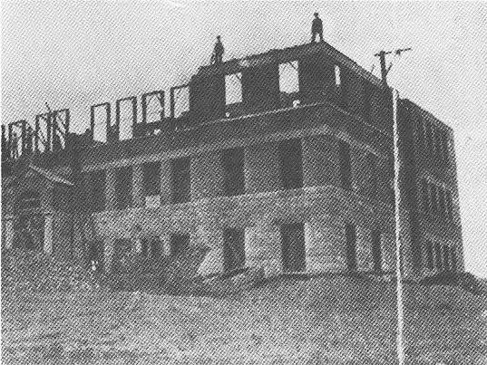 Construction of St. Procopius College in Lisle, Illinois, United States on July 23, 1900.